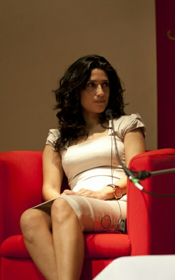 Fatima Bhutto promoting her book at SOAS, University of London